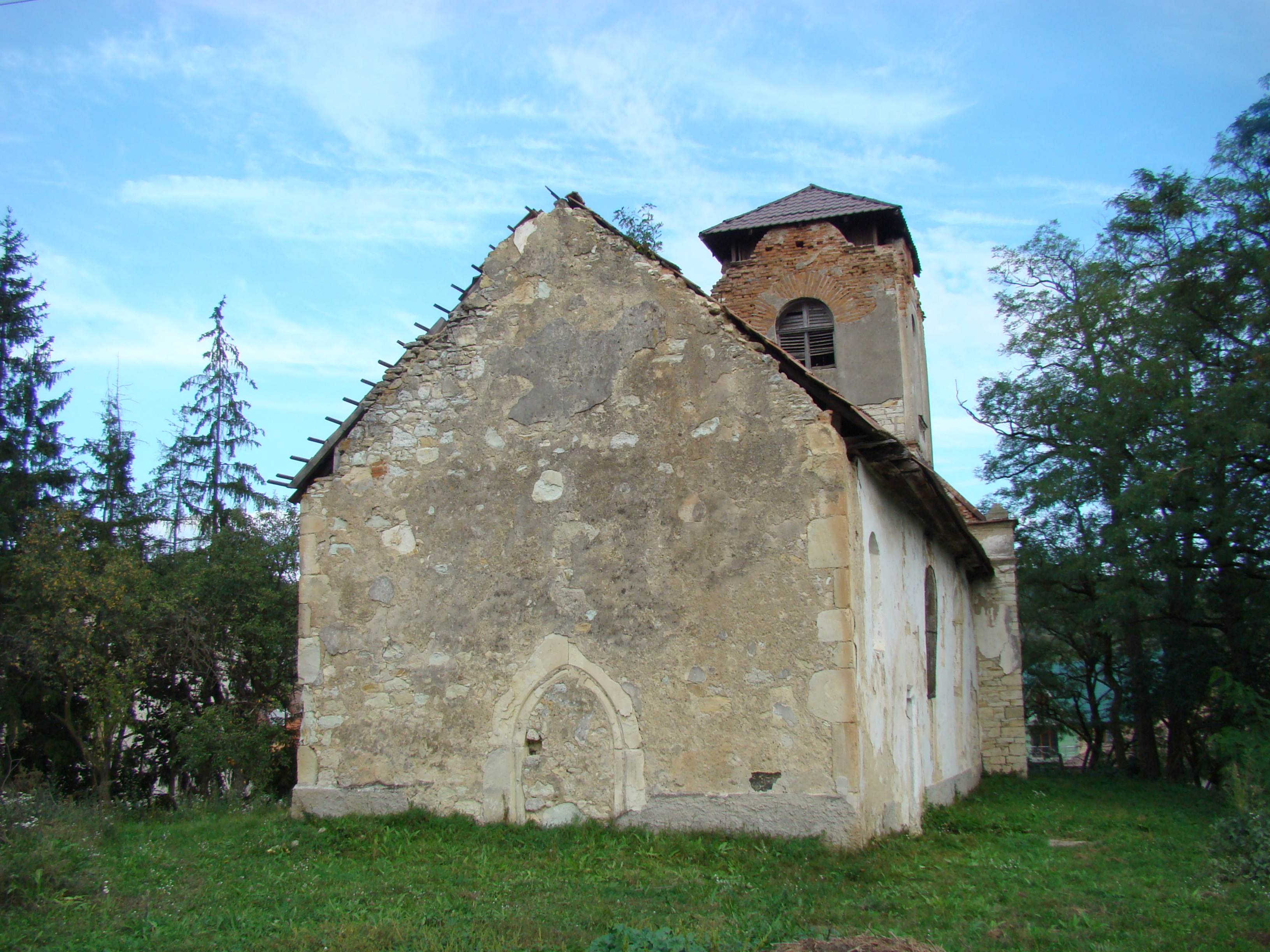 Reformed church in Panticeu, Cluj county, Romania